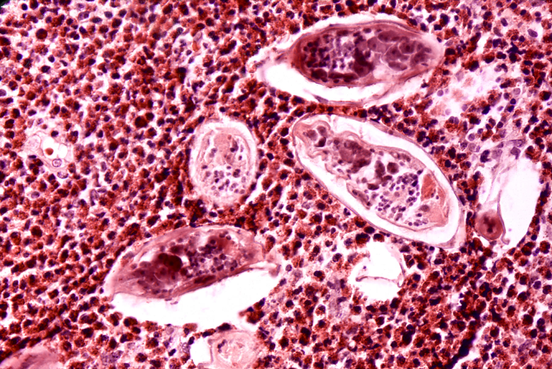 Closeup of Schistosoma Parasite Eggs in Bladder.